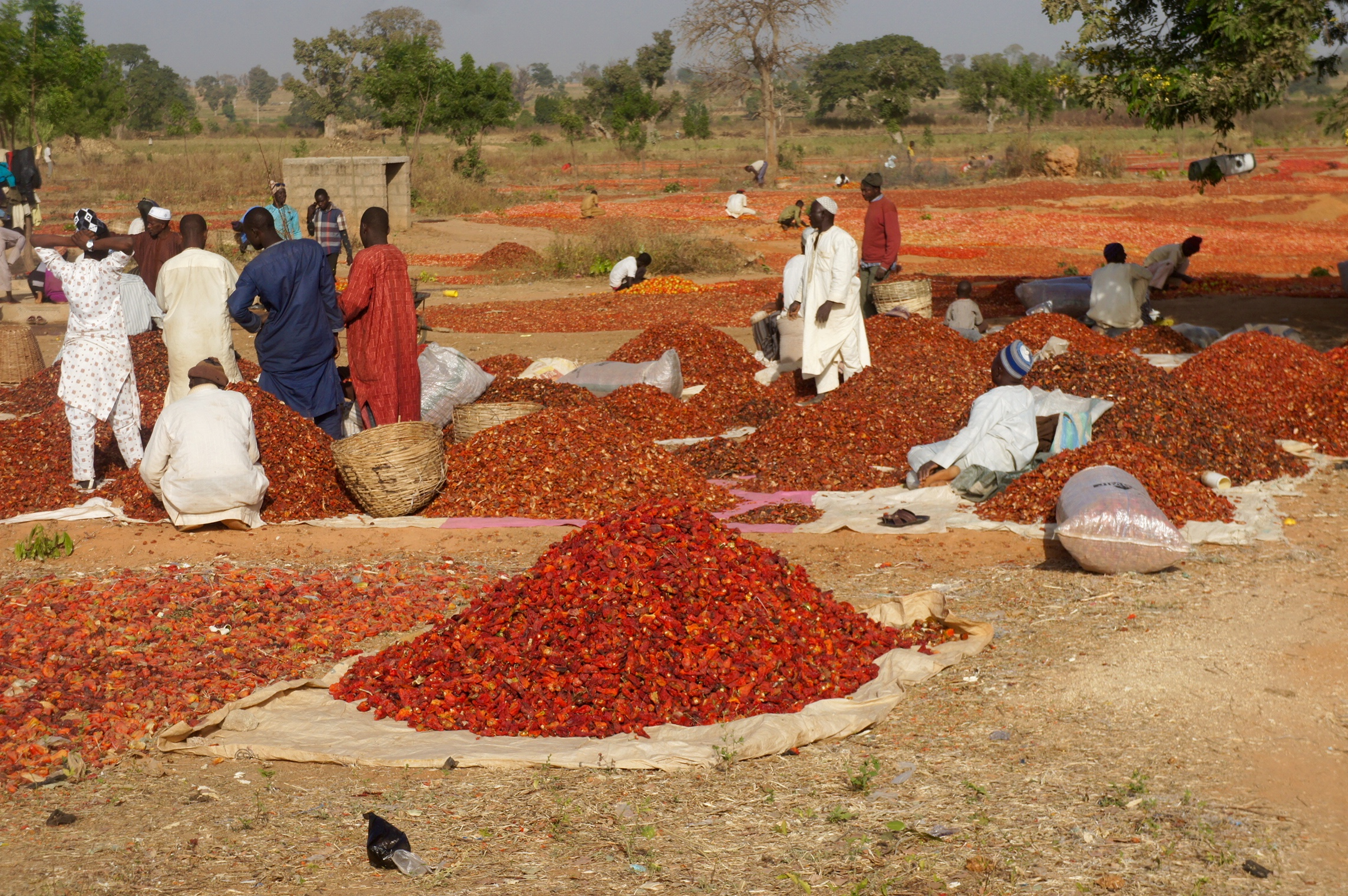 Road side dry tomato and pepper market, Hunkuyi, Kaduna State. After the rainy season, fresh tomatoes, bell peppers and scotch bonnet peppers are preserved by spreading them on the ground to dry under the sun. This is an image from Nigeria